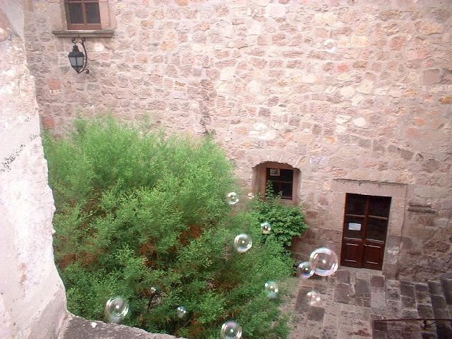 bueno este es uno de los patios de la casa dde la cultura